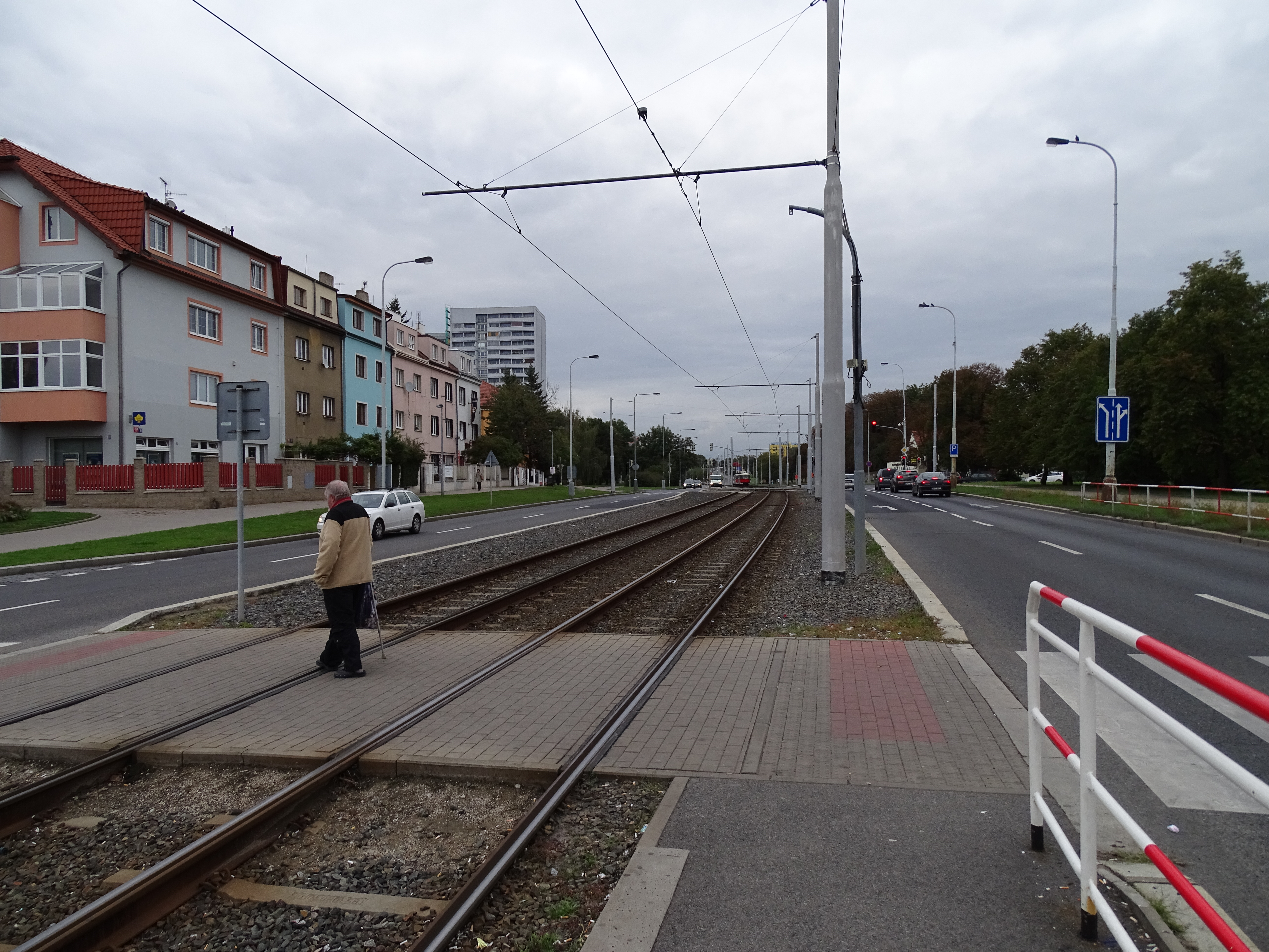 Prague-Kobylisy and Libeň, Czechia. Střelničná street, a tram track from the tram stop Ládví.